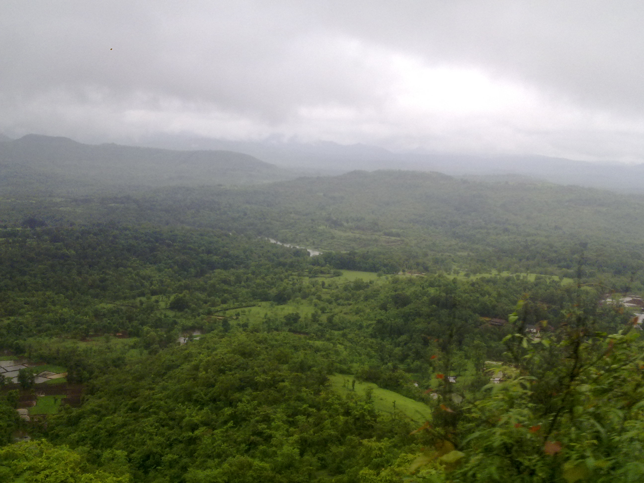 This picture has been shot at the beginning of monsoon in the Sahayadri range of Mountains of western India. The location is in the Amba Valley of Kolhapur district, Maharashtra, India. It shows nature in its original form with the clouds pouring in the valley with a small human settlement on the right and paddy fields on the left of the photo. No more words need describe the natural event. Conserved Forest Area.